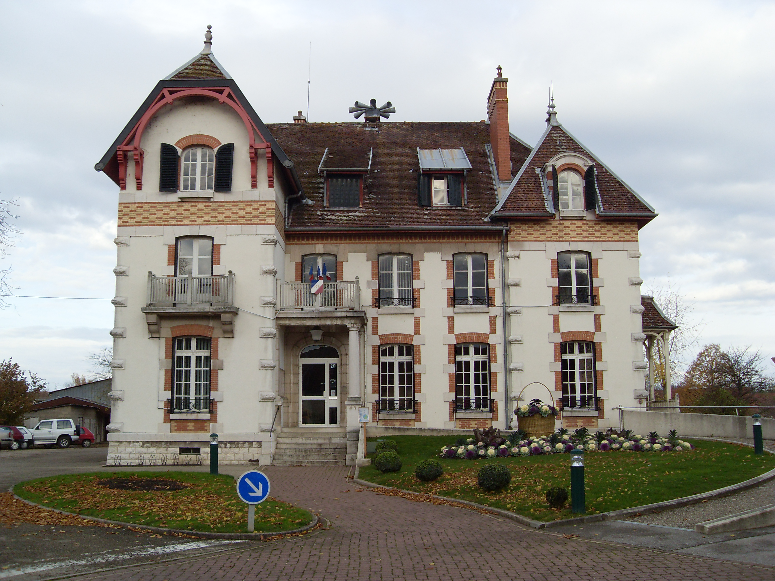 Tavaux's office.